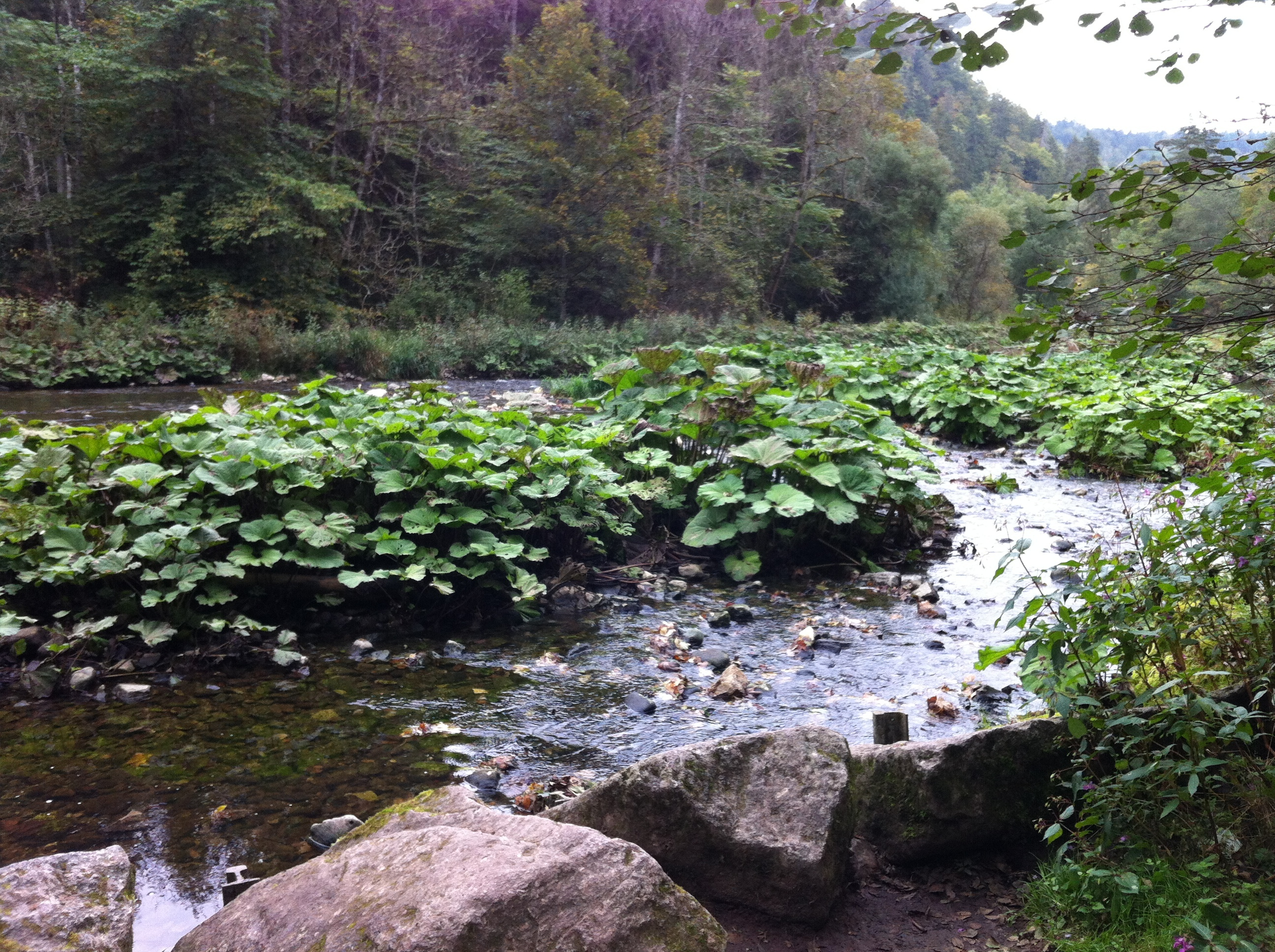 Wutach valley in the Black Forest, Germany.